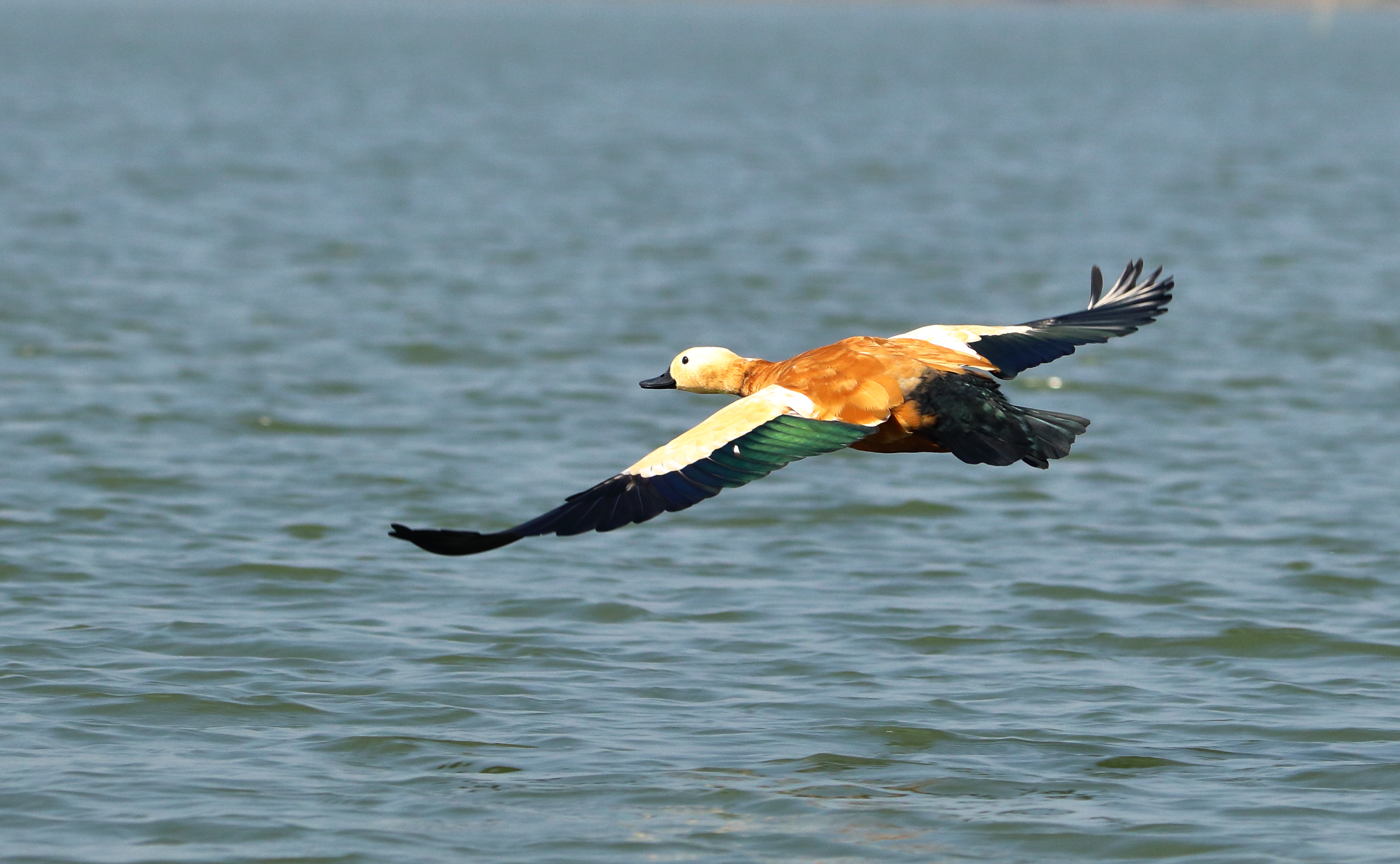 The ruddy shelduck also known as brahminy duck is a member of the Anatidae family. It is winter migratory bird in India.